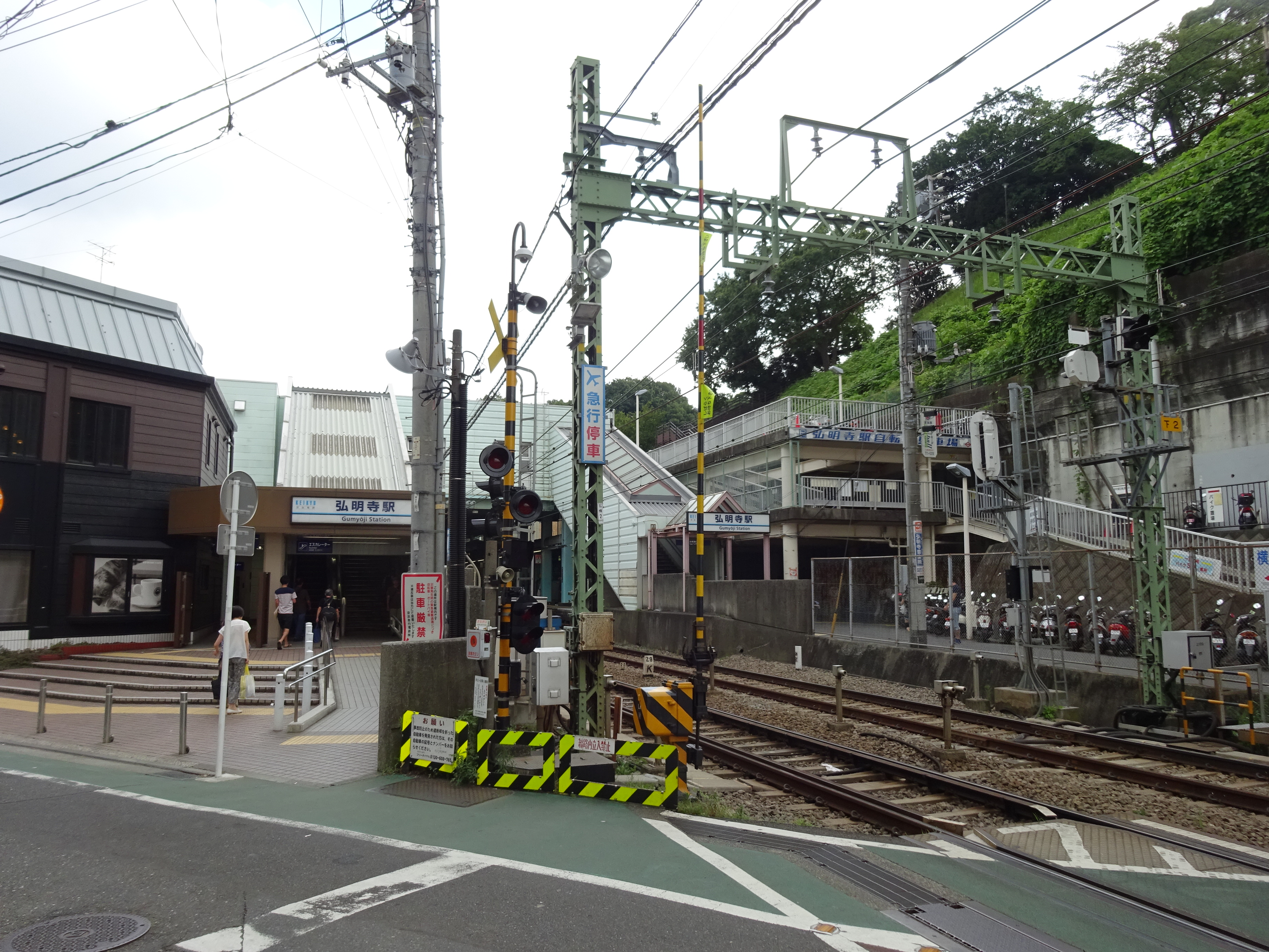 Gumyōji Station (Keikyu)